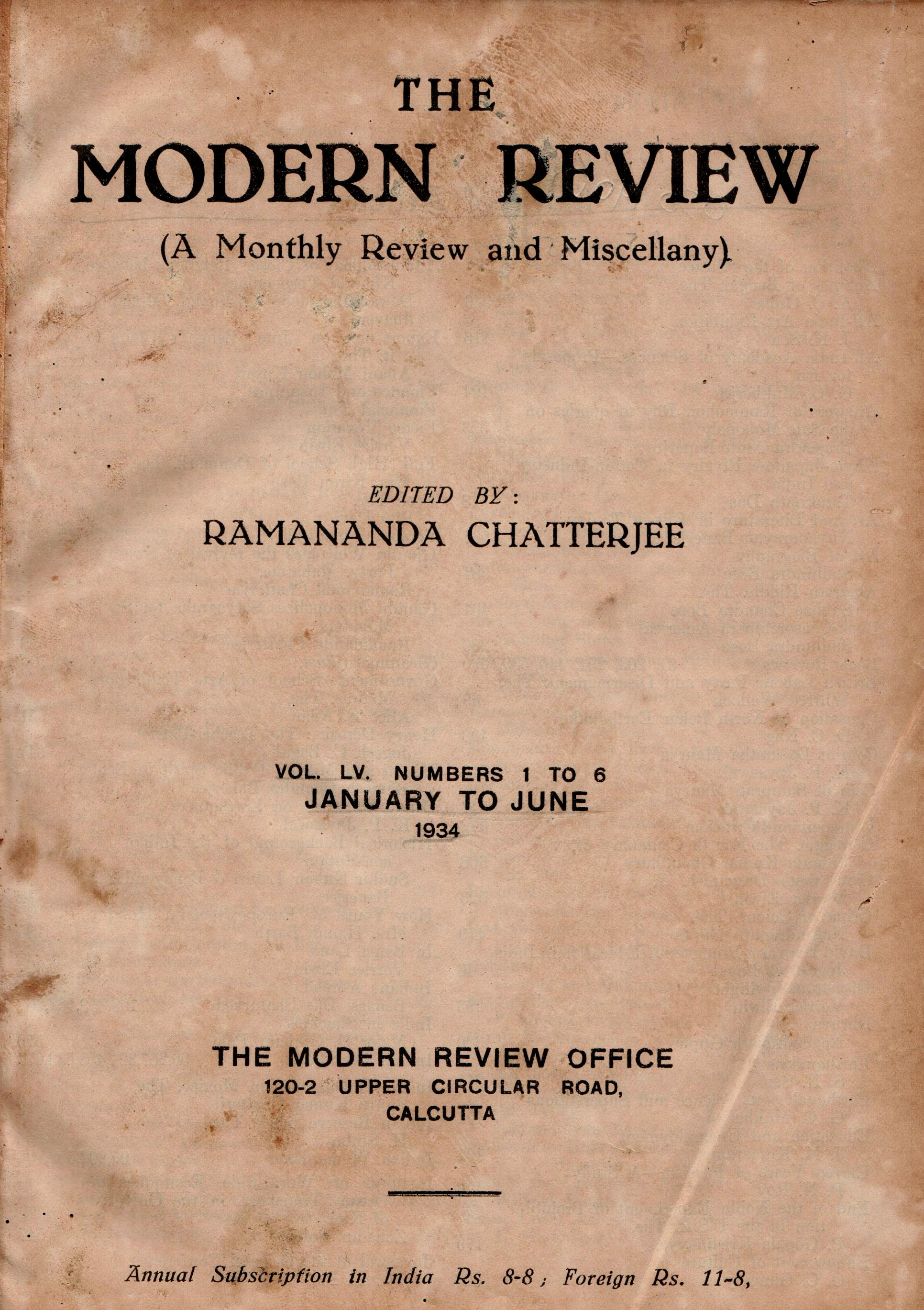 title page of Modern Review magazine, published from Calcutta, 1934